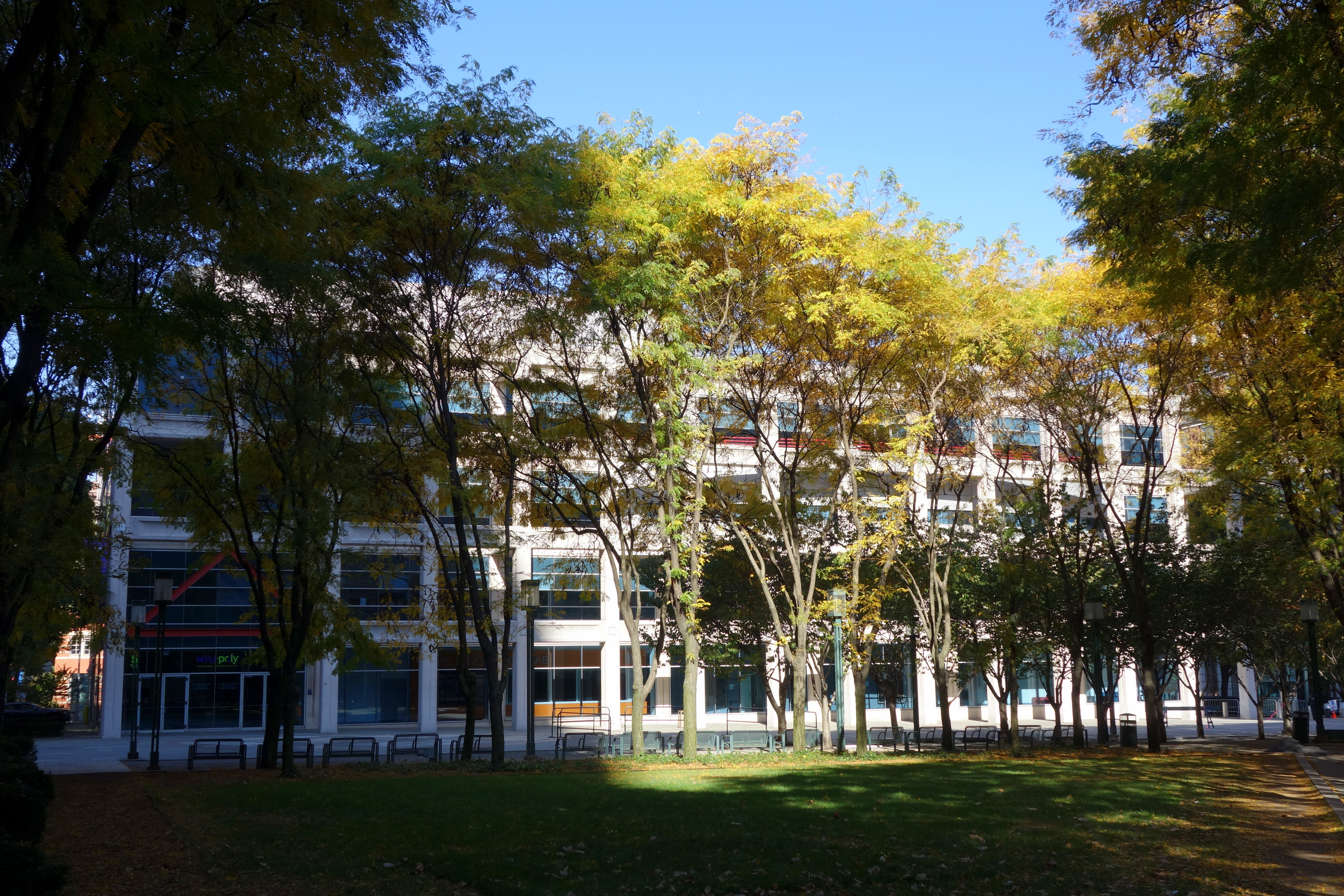 NYU Poly, formerly Polytechnic University, New York - Brooklyn, New York, USA.